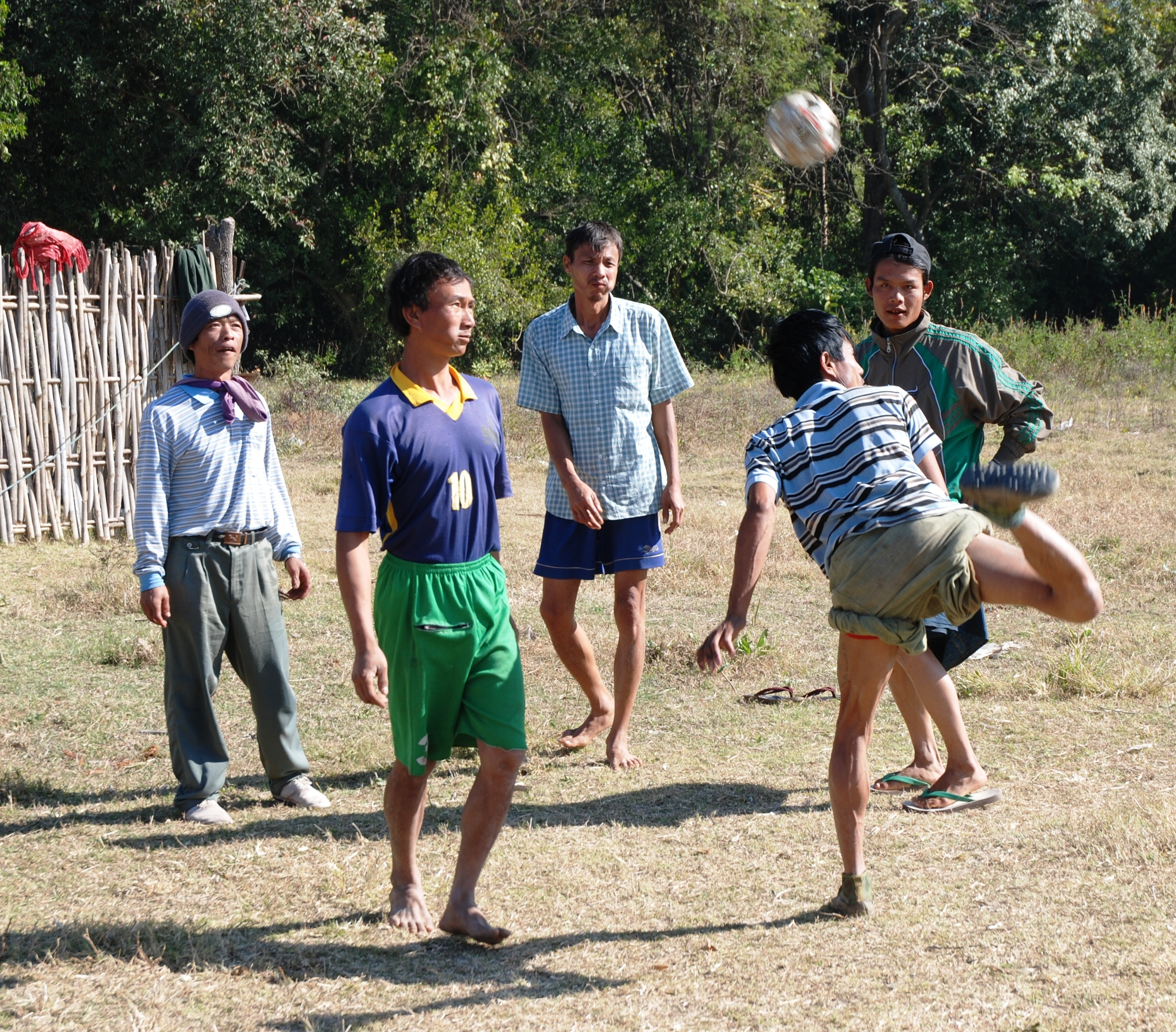 Men playing Chinlone in Ywama, Inle Lake, Burma)